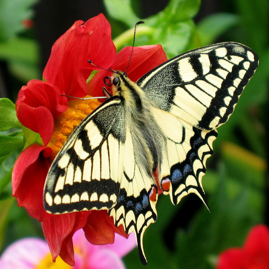 Canon PowerShot S45, F: 4.9, 1/250